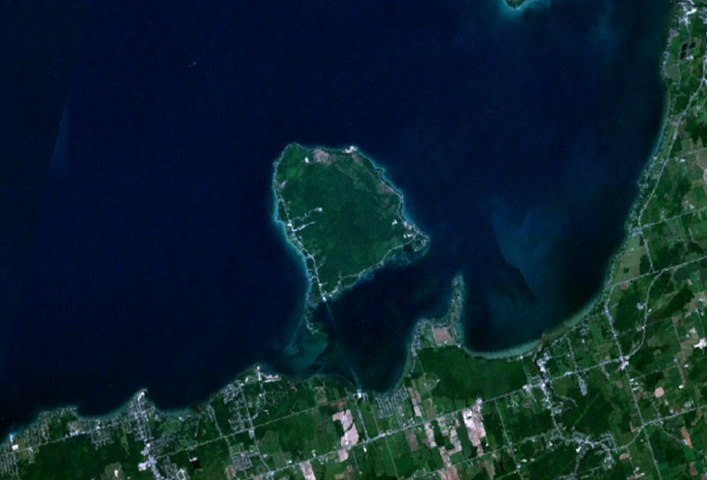 Landsat 7 image showing Georgina Island.